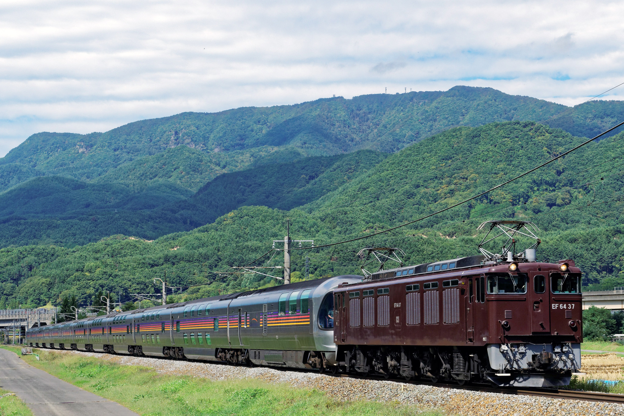 JR East Class EF64 electric locomotive EF64 37 hauling the Shinshu Cassiopeia cruise train between Hijiri-Kogen and Kamuriki Station on the Shinonoi Line in Nagano Prefecture, Japan